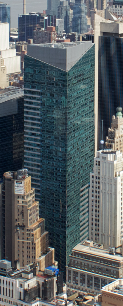 Shot from Emipre State Building in April 2011.